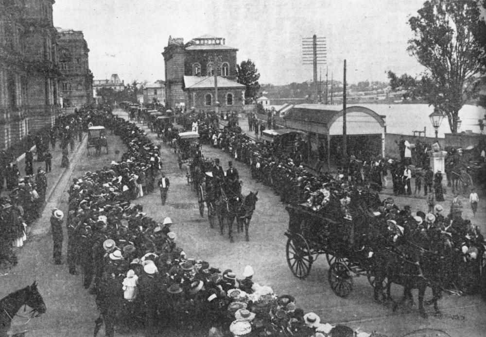 Funeral procession of Sir Augustus Charles Gregory, Brisbane, 1905. The funeral cortege is passing the Treasury building. (Description supplied with photograph).